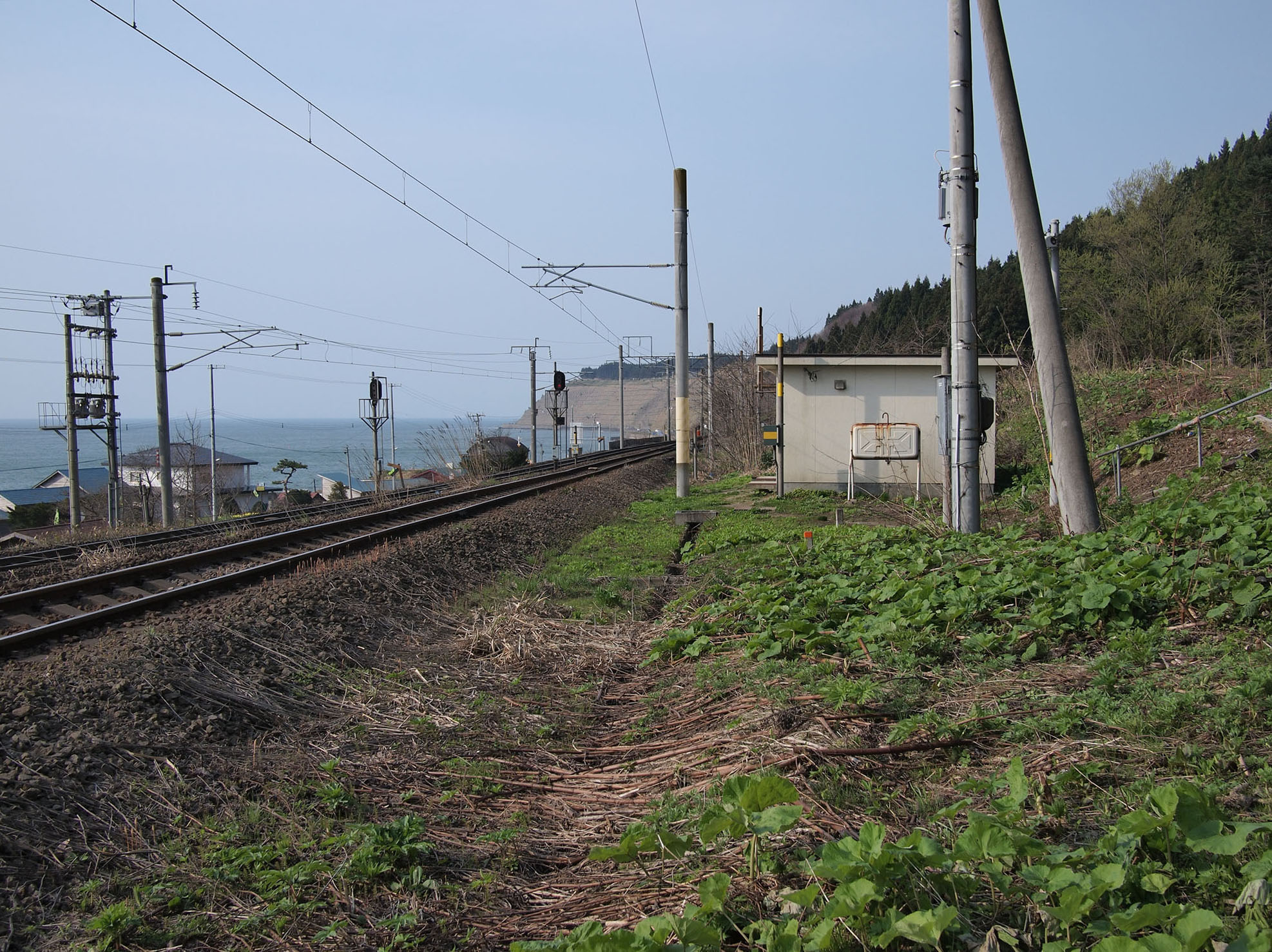 Yafurai signal base, Hokuto, Hokkaido, Japan